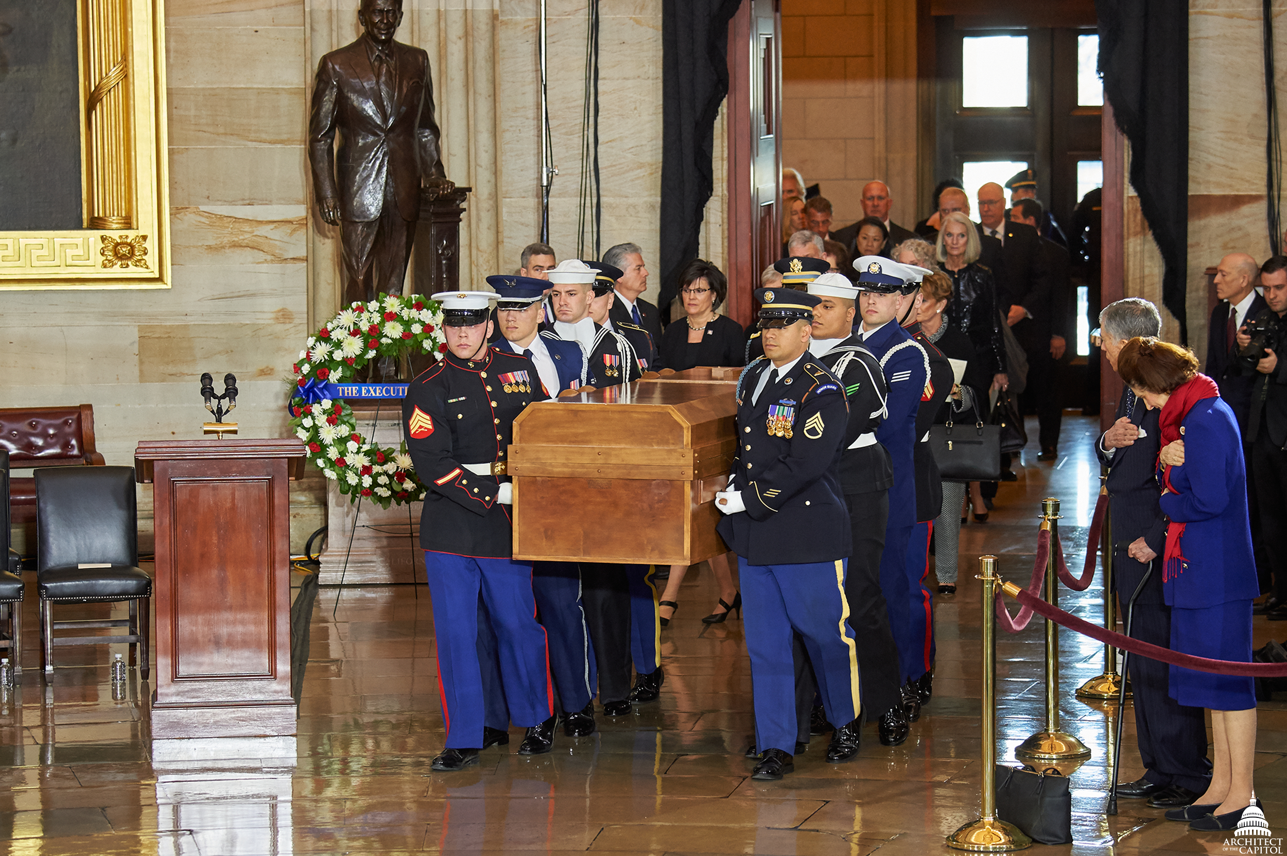 Rev. Billy Graham: minister, evangelist and adviser to presidents. Died February 21, 2018, in Montreat, North Carolina. He lay in honor February 28, 2018 - March 1, 2018. Authority for use of the Rotunda granted by House Concurrent Resolution 107, 115th Congress, 2d Session, agreed to February 26, 2018. More details about Lying in Honor. This official Architect of the Capitol photograph is being made available for educational, scholarly, news or personal purposes (not advertising or any other commercial use). When any of these images is used the photographic credit line should read “Architect of the Capitol.” These images may not be used in any way that would imply endorsement by the Architect of the Capitol or the United States Congress of a product, service or point of view. For more information visit .